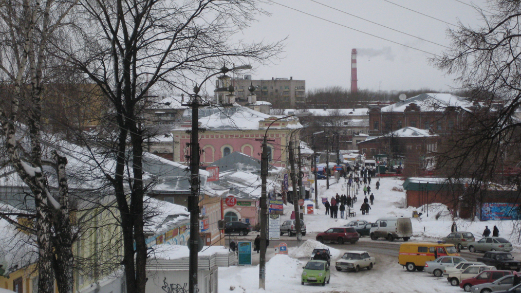 View of Kungur in winter